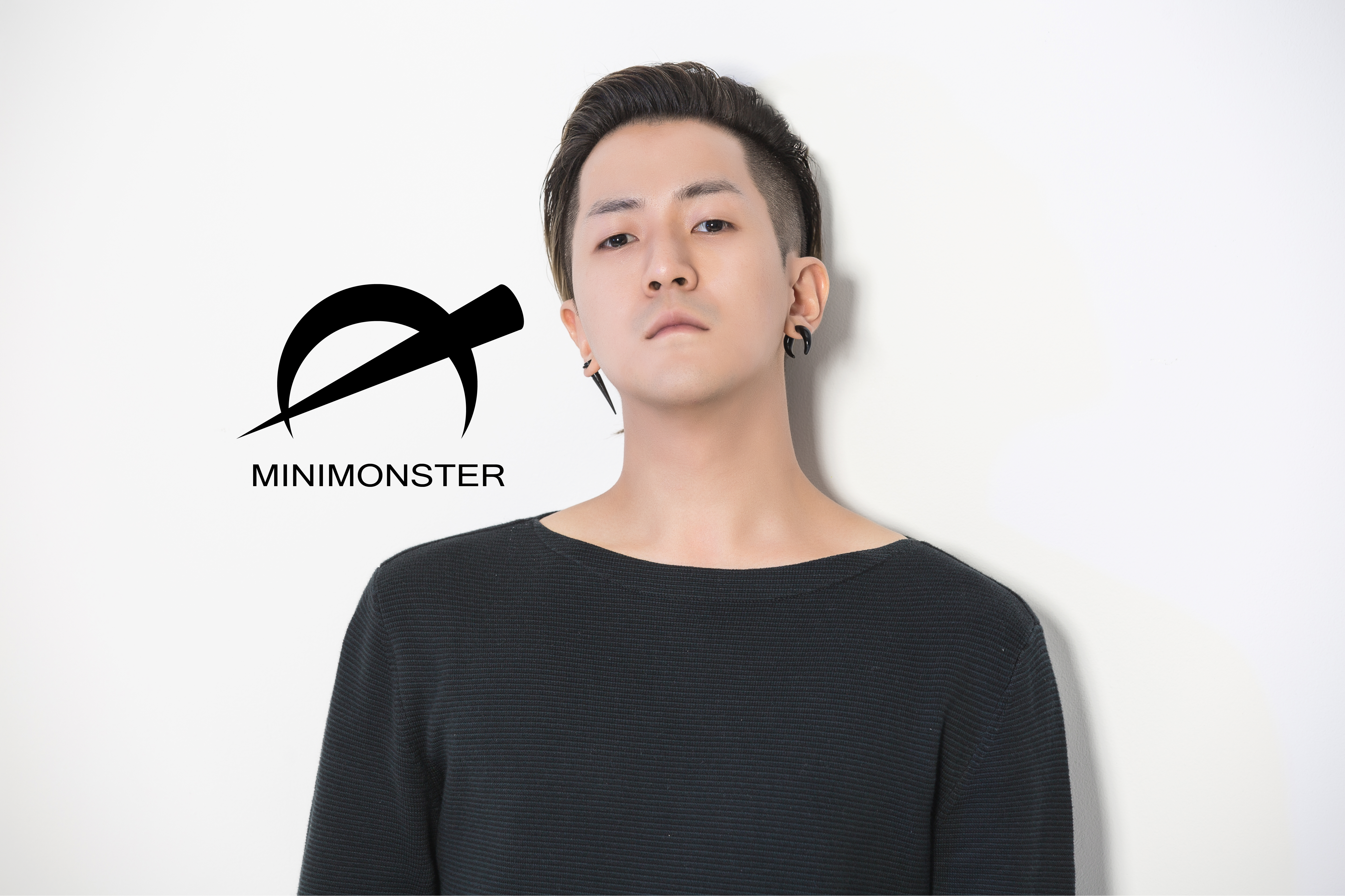 MINIMONSTER